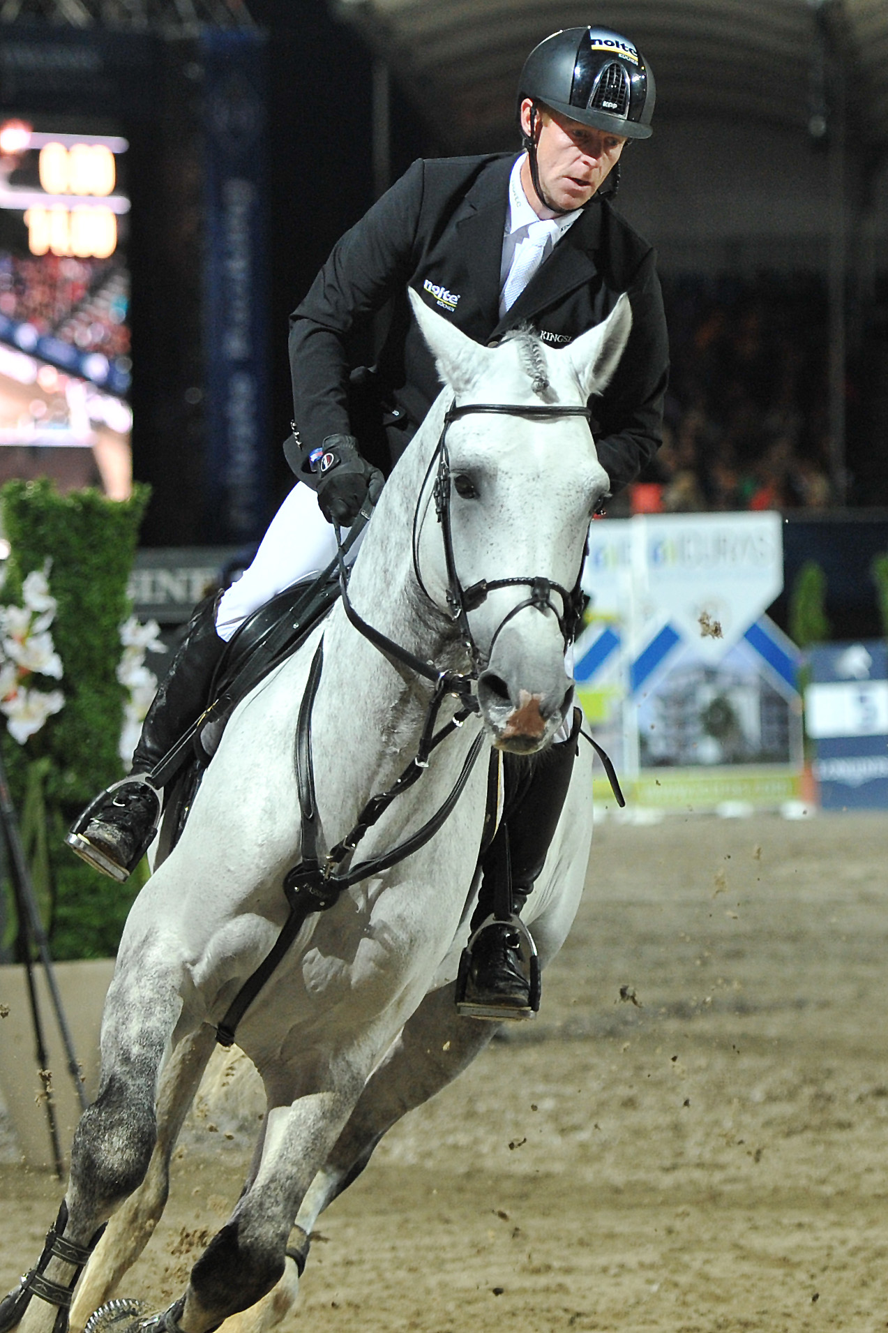 Vienna Masters am 21. September 2013 Longines Global Champions Tour Marcus Ehning (GER) auf Cornado NRW